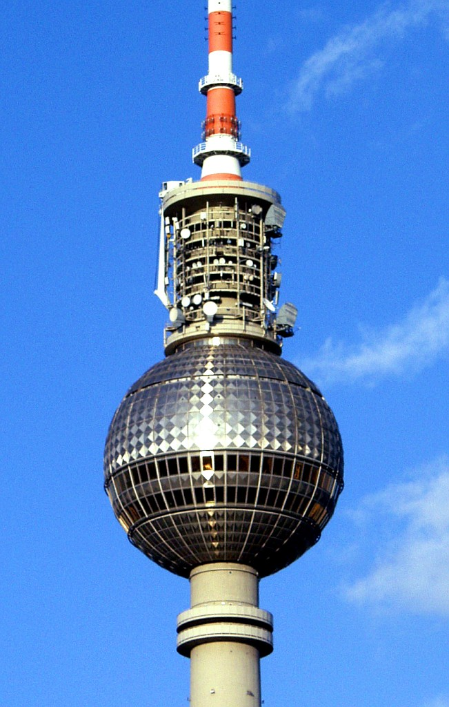 Berliner Fernsehturm at Berlin